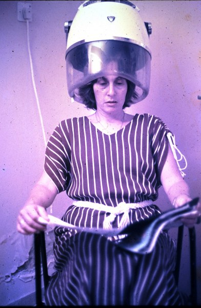 Barbershop, Econimy of Israel